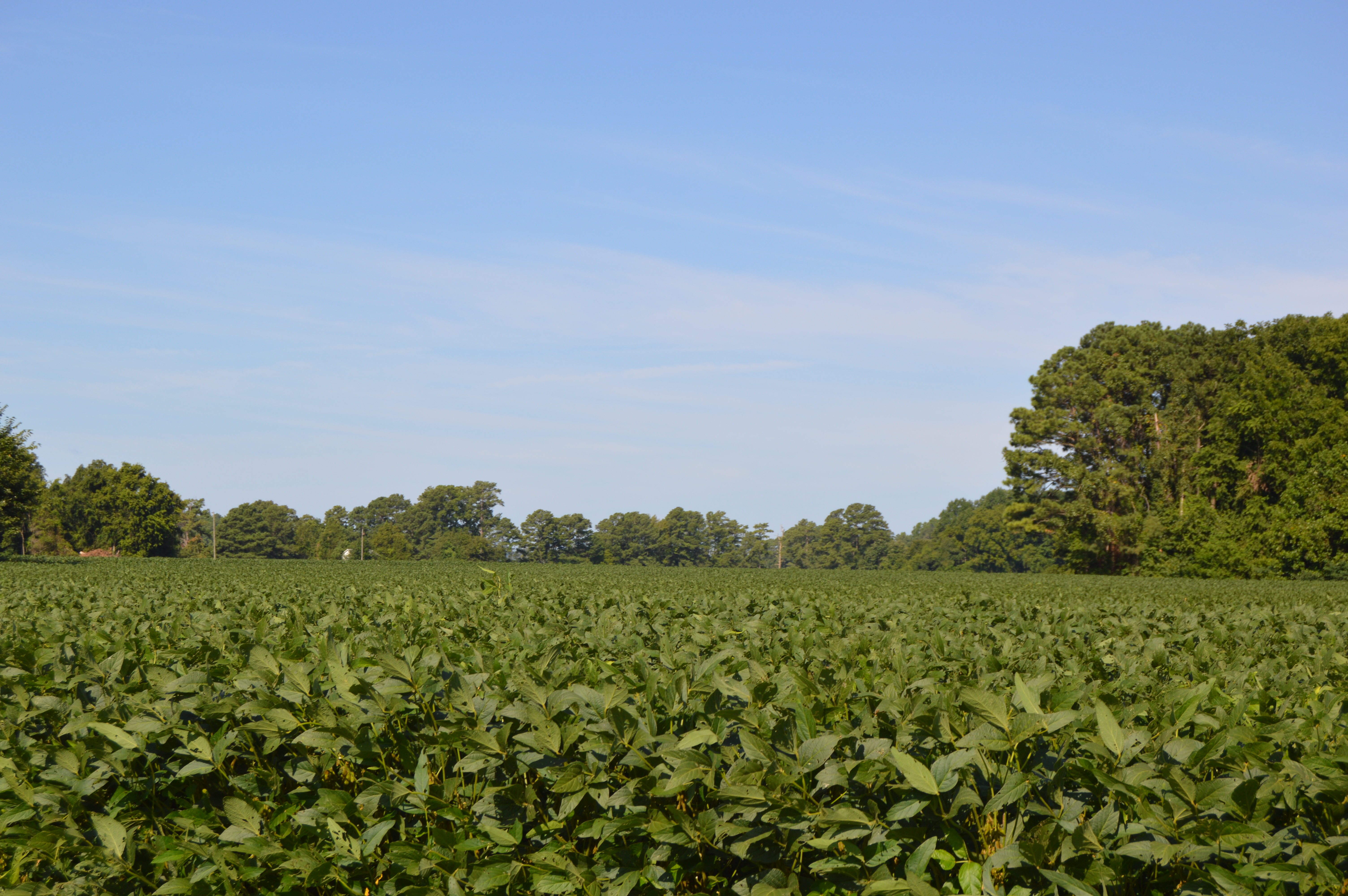 Overview of the Shelly Archeological District, located off Shelley Road southwest of Clopton in Gloucester County, Virginia, United States. The district has been listed on the National Register of Historic Places.